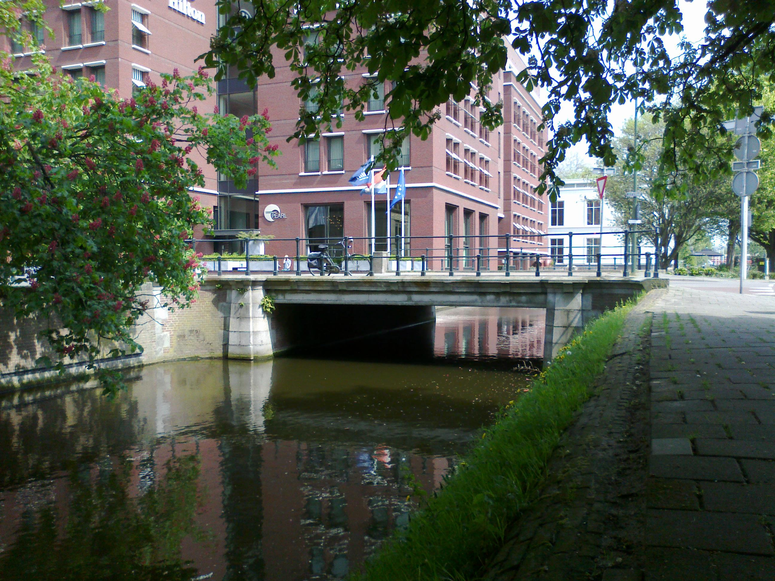 The Scheveningen Bridge at the Zeestraat / Scheveningseveer, The Hague. To the upper-left the Hilton Hotel.